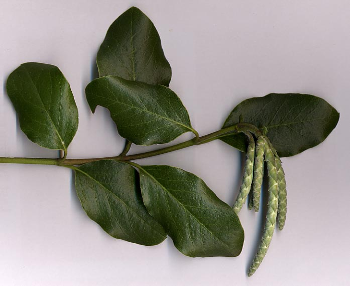 Garrya elliptica — Coast silktassle, foliage and catkins. Credits Photo MPF